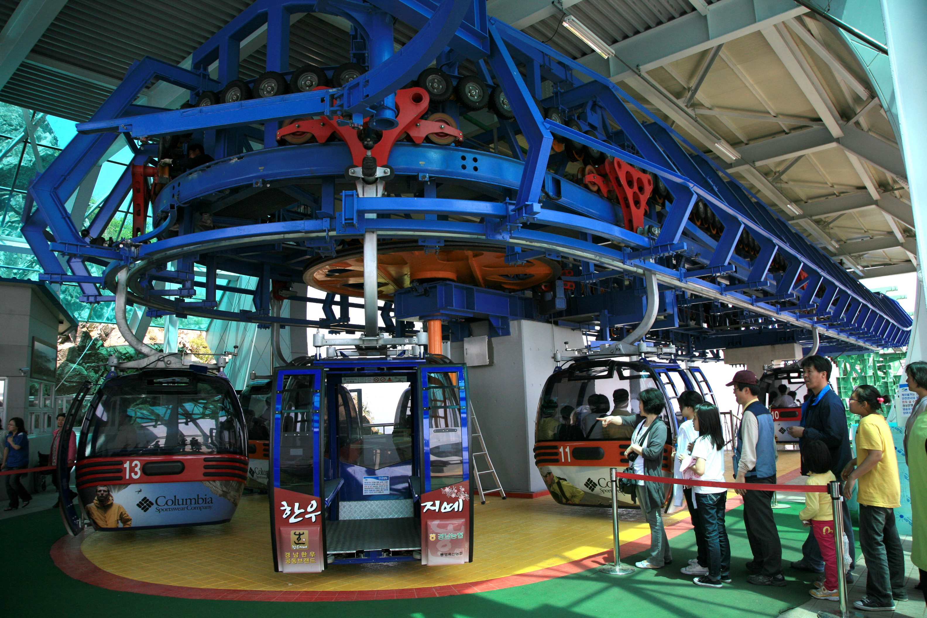 View of Hallyeo Waterway Observation Cable Car in Tongyeong, South Gyeongsang province, South Korea